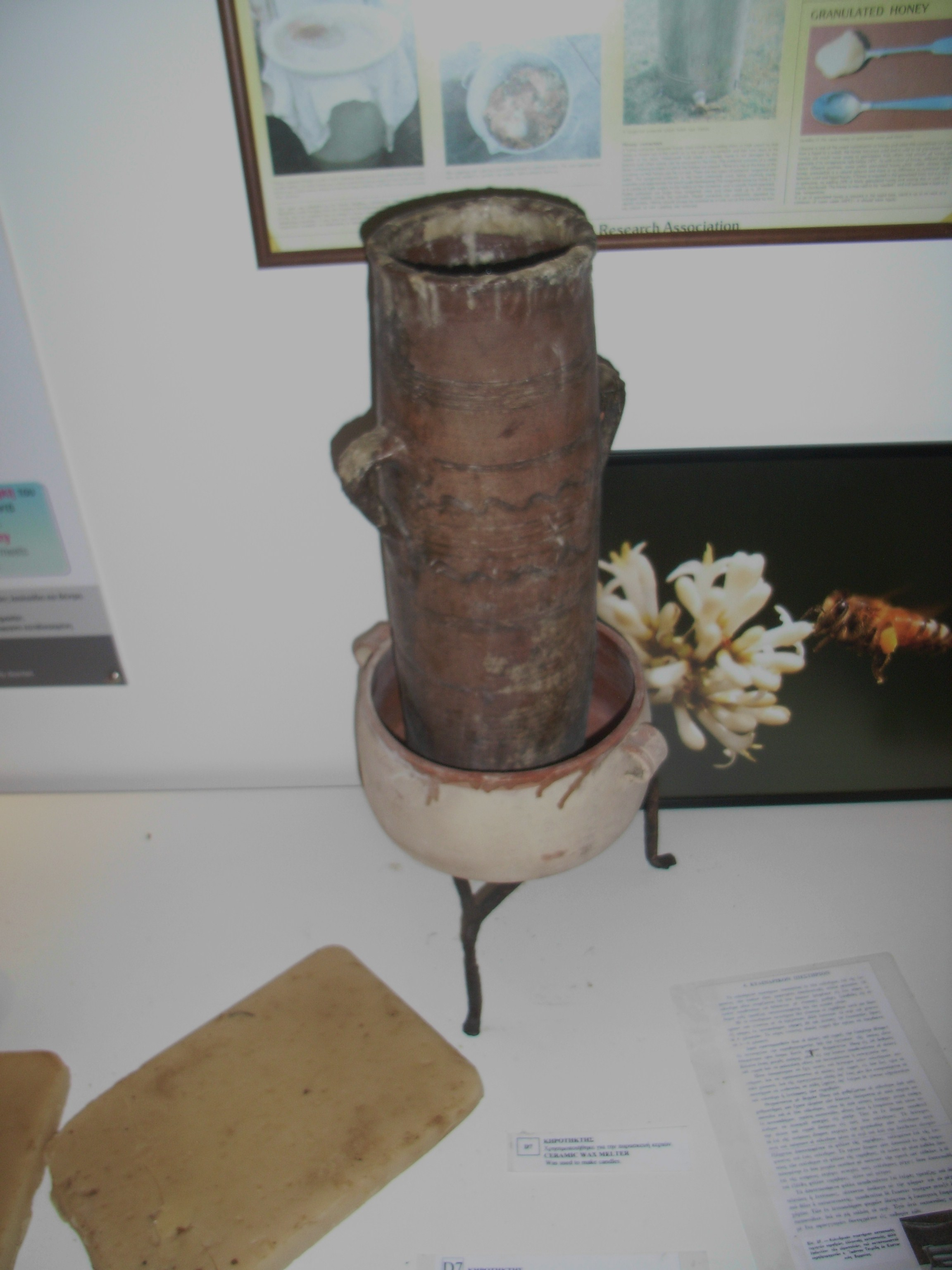 Ceramic Wax Melter in the Bee Museum Rhodes Used to make candles in the previous century- by dipping them into it.